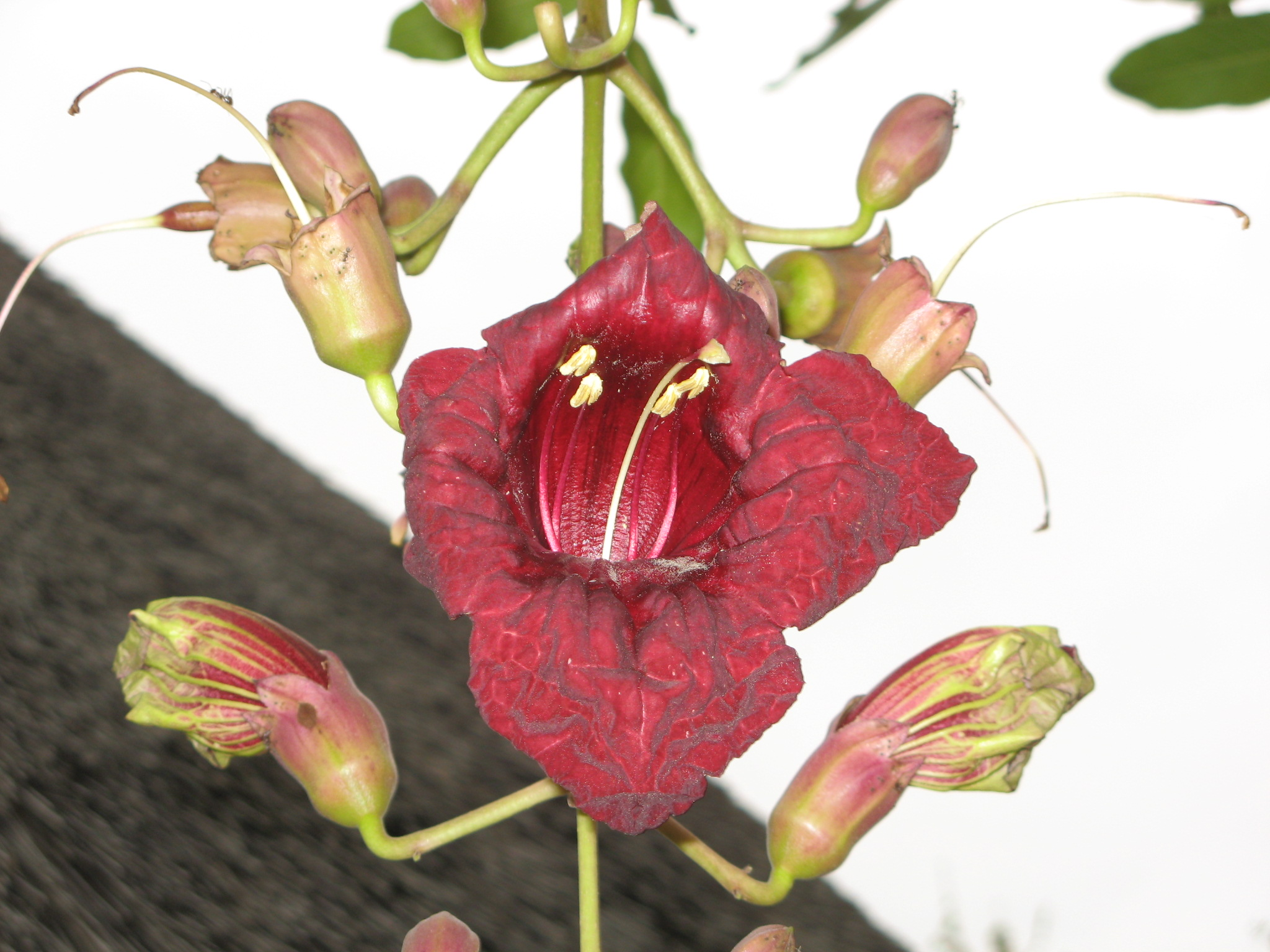 Open flower in the panicle of a Sausage tree (Kigelia africana) at Pretoriuskop Camp in Kruger National Park, South Africa